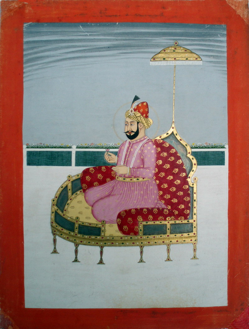 From a series depicting Mughal emperors: Humayun. Provincial Mughal style at Murshidabad. Late 18th century. Gouache and tooled gold leaf on wasli. 24cm by 17.8cm Provenance: Dr W B Manley Formerly lot 110, Sotheby’s Oriental Miniatures and Manuscripts and Printed Books, The Property of Dr WB Manley. 14.07.1971. An important and widely published ragamala series acquired by Manley in the 1930s and since known as the 'Manley Ragamala' was bought by the British Museum in 1973. Ref: Murshidabad Humayun 107-2617